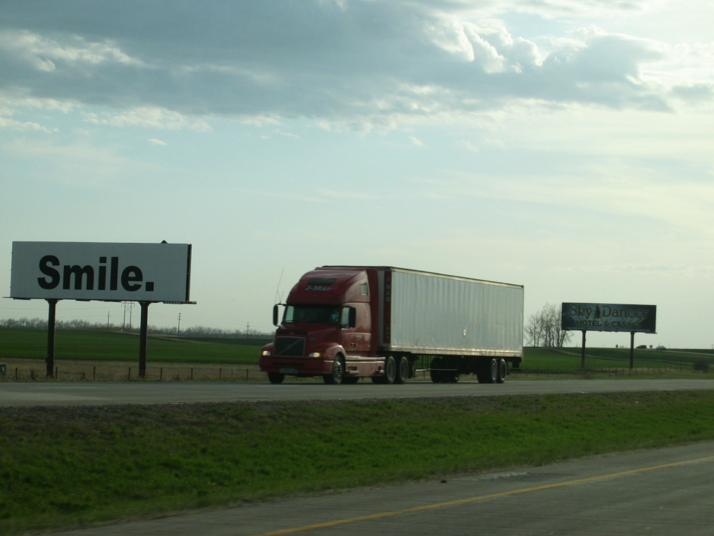 Billboard West bound on .